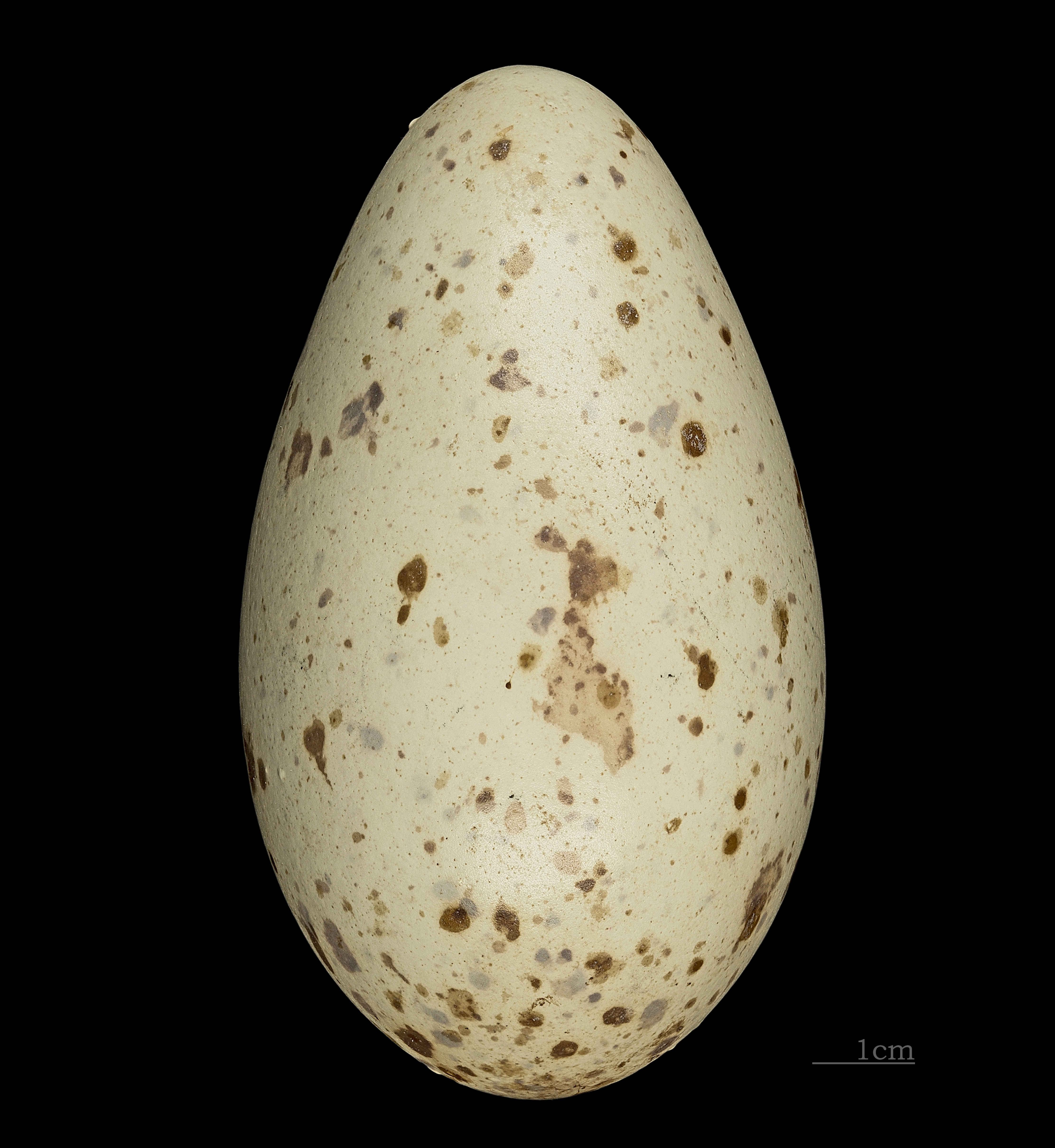 Egg of Brolga Collection of Jacques Perrin de Brichambaut.